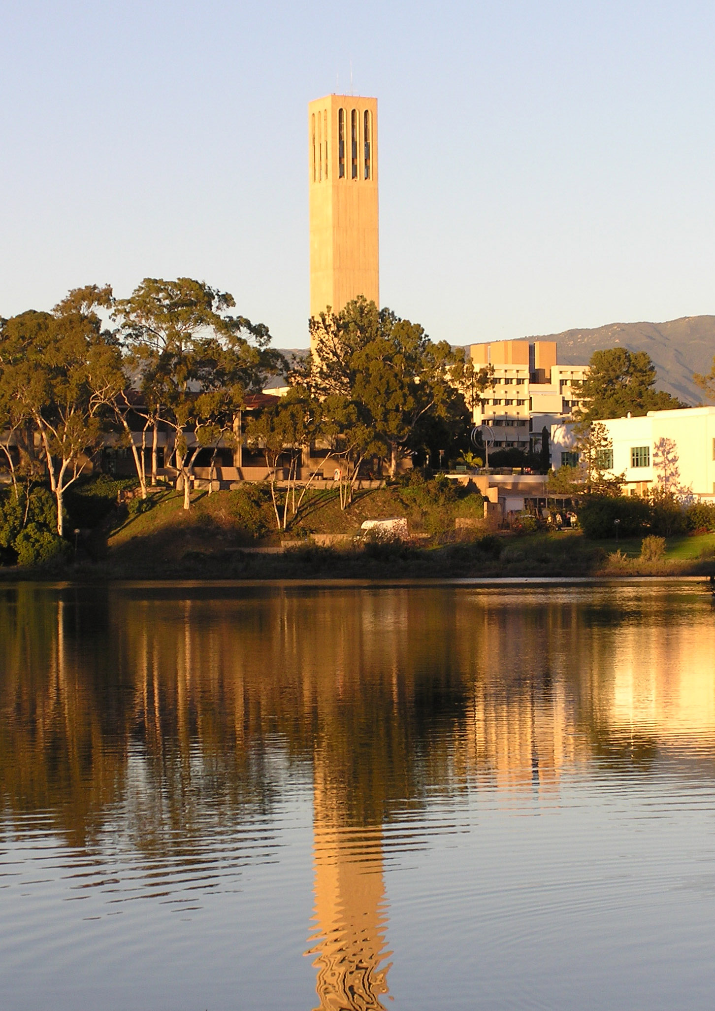 The Storke Tower of UCSB - University of California, Santa Barbara.